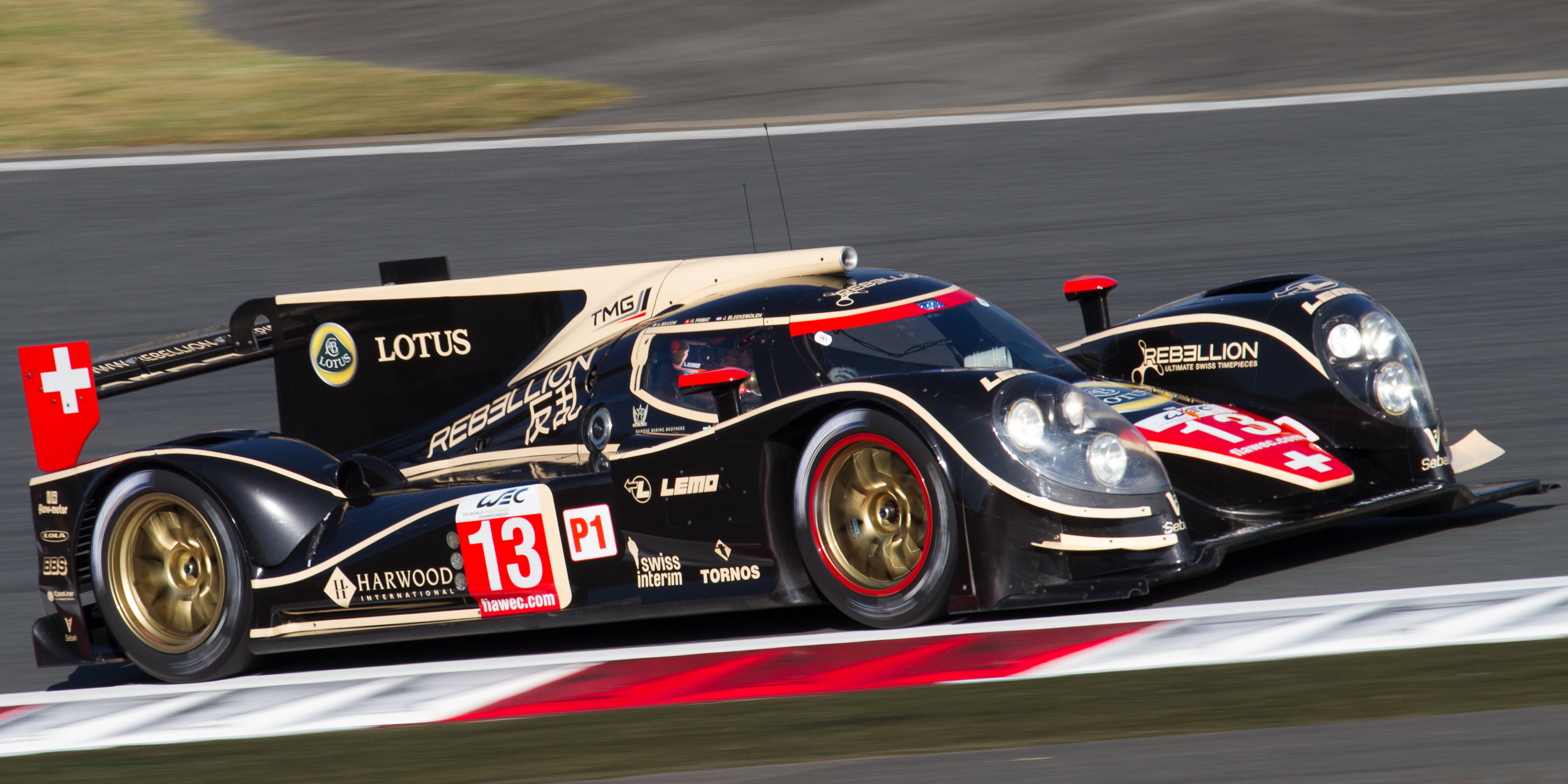 FIA World Endurance Championship 2012 Rd.7 6 Hours of Fuji: #13 Lola B12/60 (Rebellion Racing), driven by Andrea Belicchi.